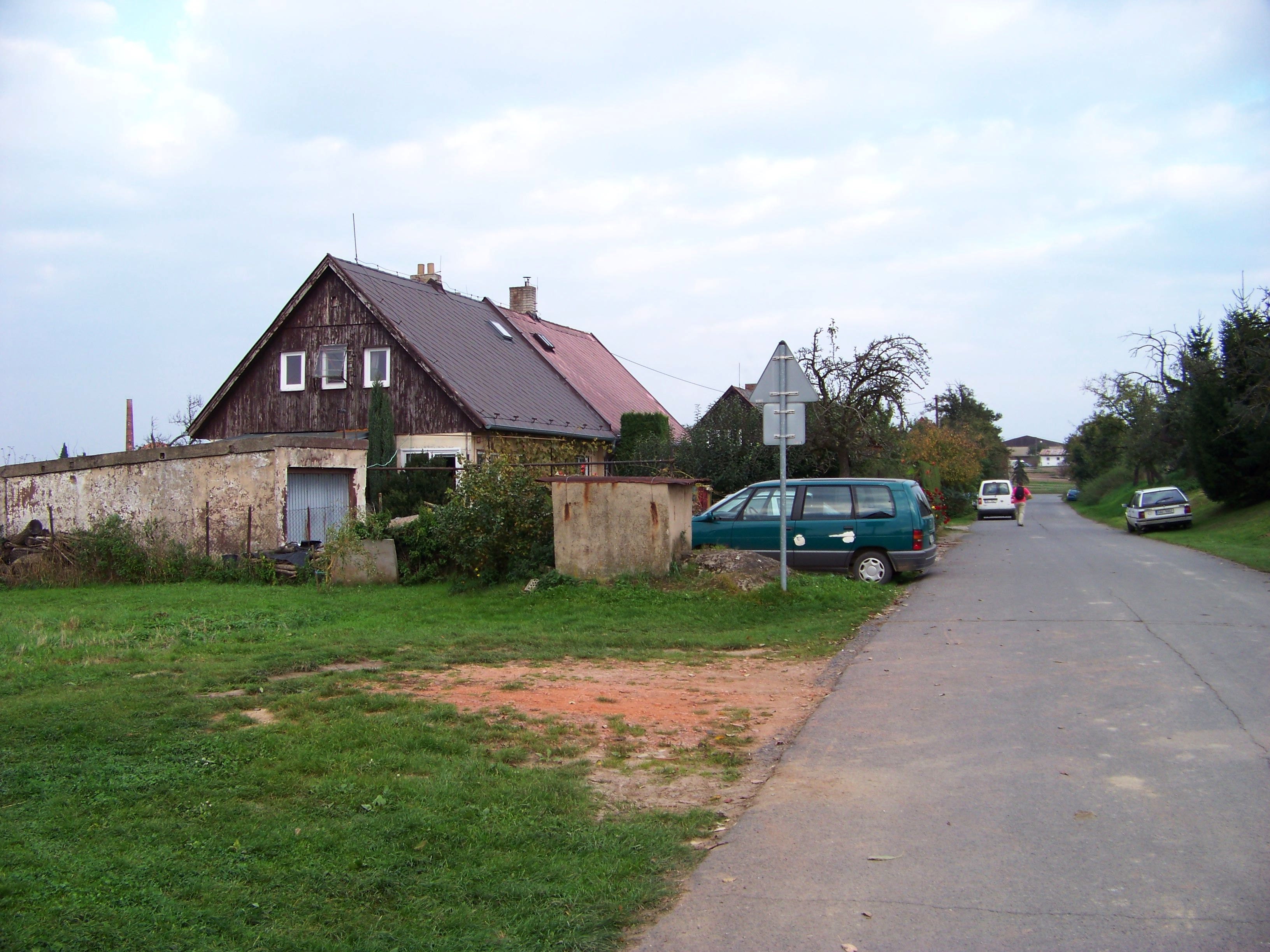 Prague-Uhříněves, Czech Republic. Netluky 837, 836.